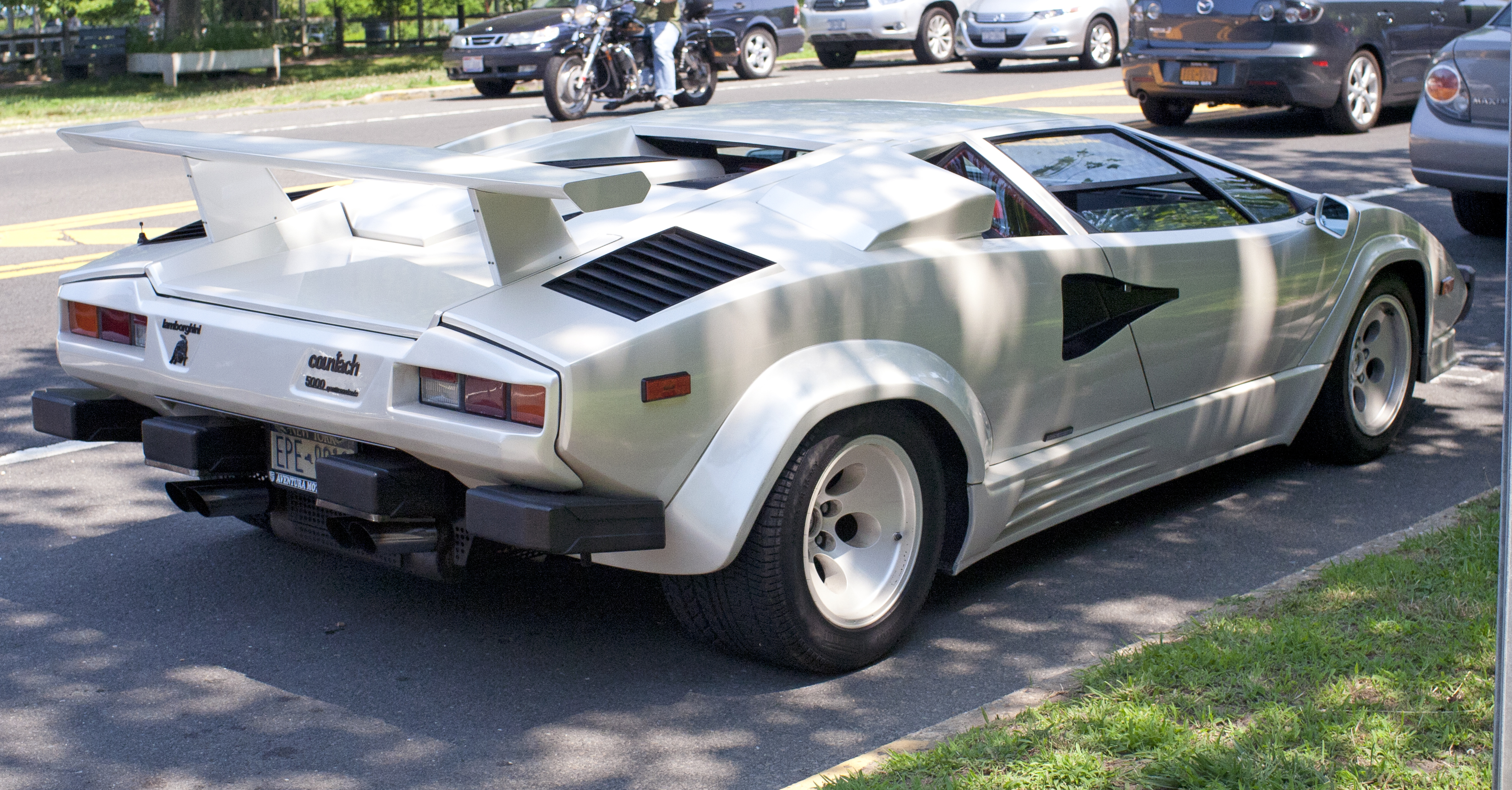 1988 Lamborghini Countach 5000 QV, US spec.